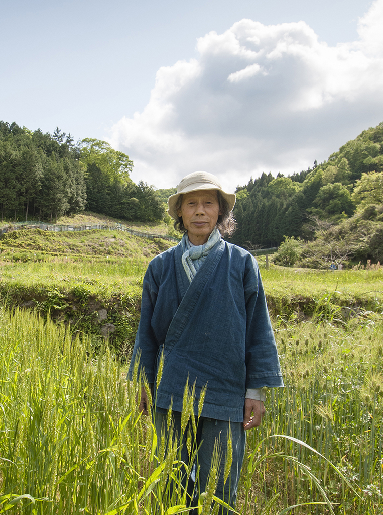 A production still from the film Final Straw: Food, Earth, Happiness features natural farmer Yoshikazu Kawaguchi at his "Akame Natural Farming School" in Nara prefecture, Japan.